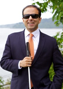 Photo of Cyrus Habib in 2014